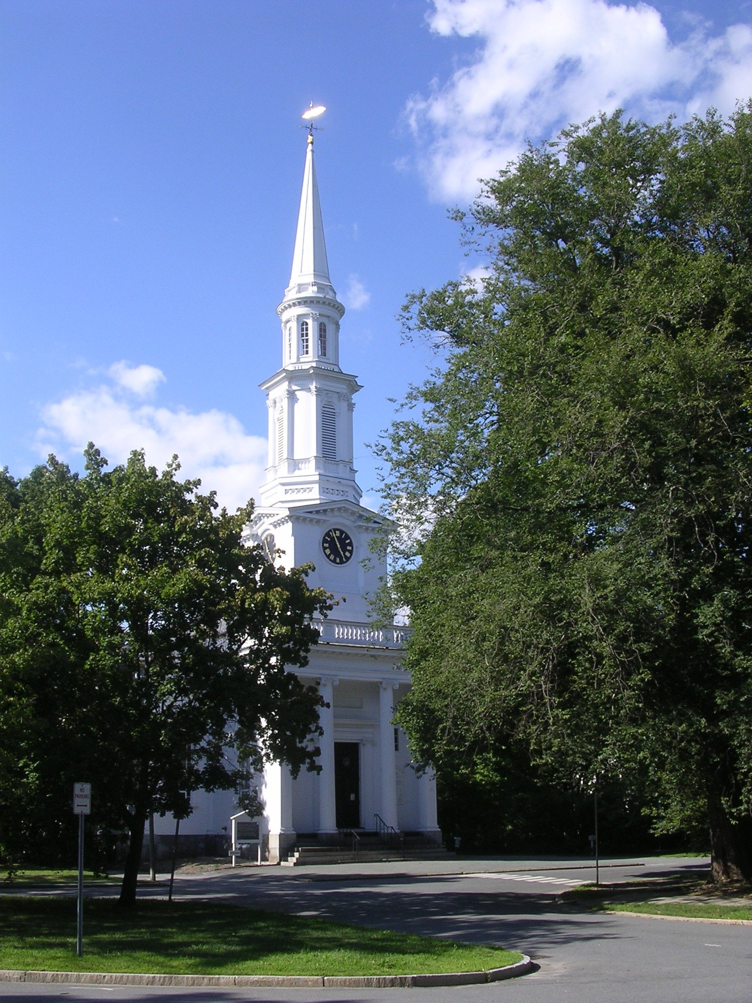 First Parish in Lexington Massachusetts